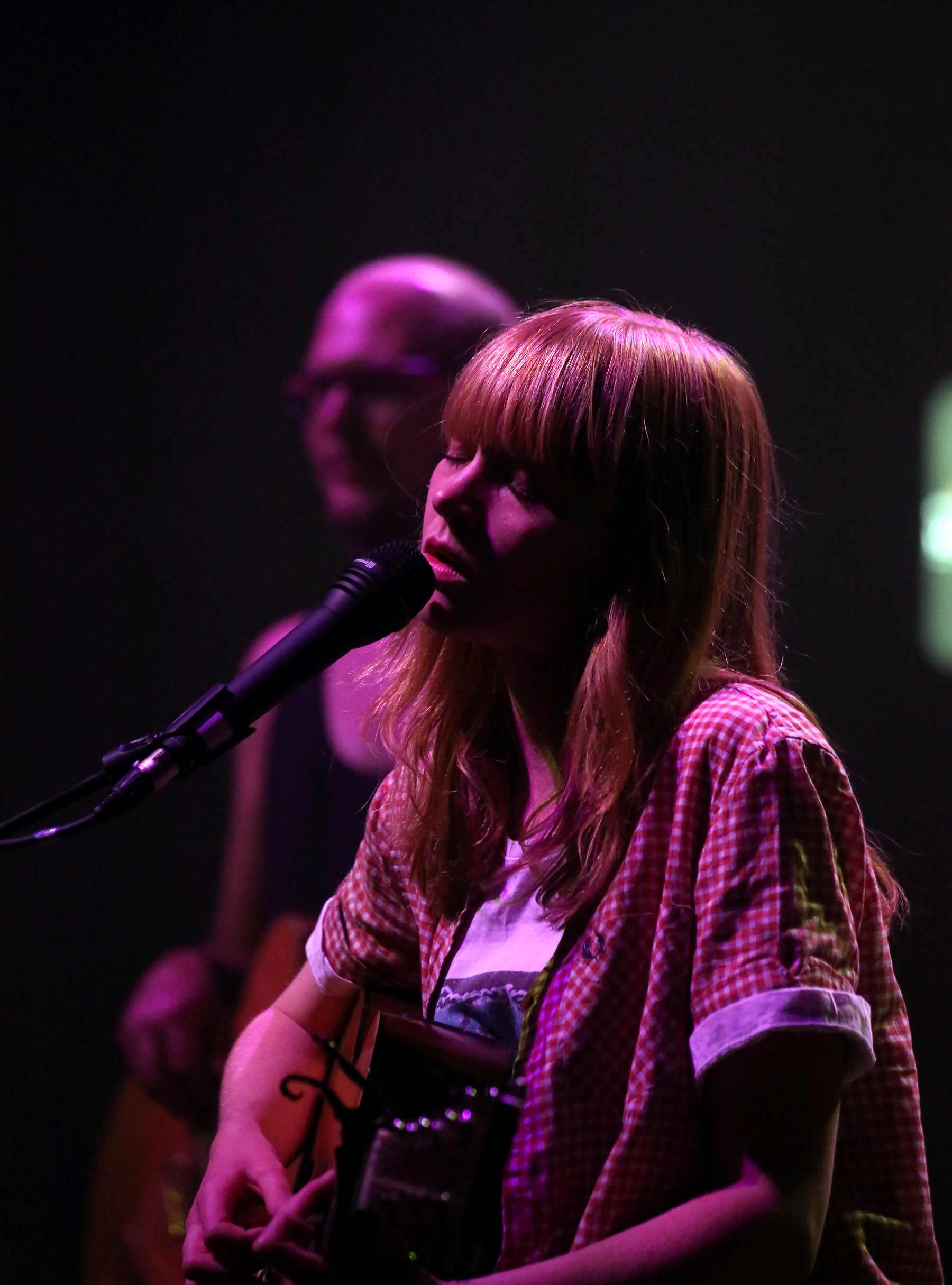 Lucy Rose - concert at Odeon during Waves Vienna Music Festival & Conference 2012 in Vienna, Austria.